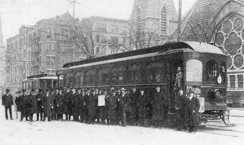 Attendants at a convention in Dayton, Ohio, arrived on this special car of the Detroit, Monroe and Toledo Railroad. The car covered 720 miles going to and from Dayton.